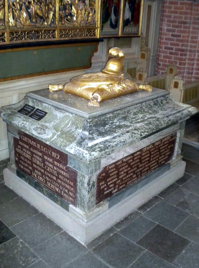 Grave of Swedish regent Sten Sture the Elder in Strängnäs Cathedral, as released by image creator RistessonPlace: Strängnäs, Sweden